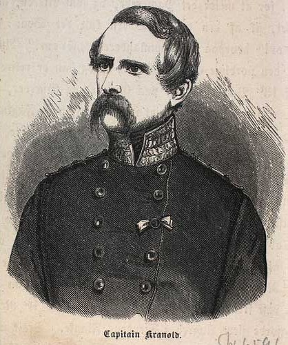 Wilhelm Heinrich August Kranold (1818-1850), Danish army officer